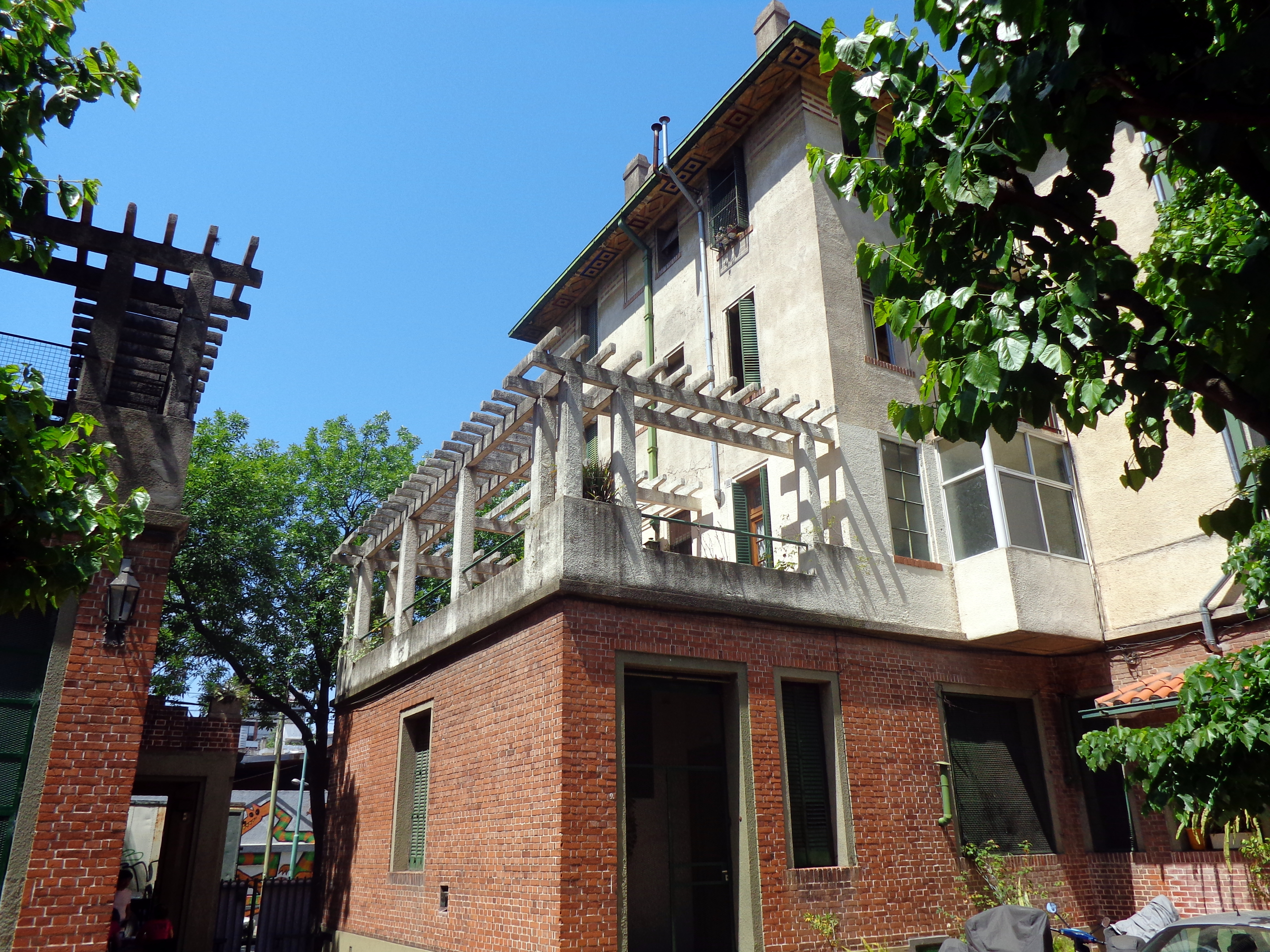 Parque Los Andes House Collective, a micro neighborhood built by the City of Buenos Aires between 1926 and 1928 in Chacarita, Buenos Aires, Argentina.